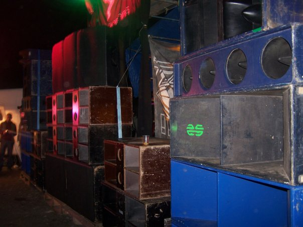 Mur Ultim Atom & Biobanas